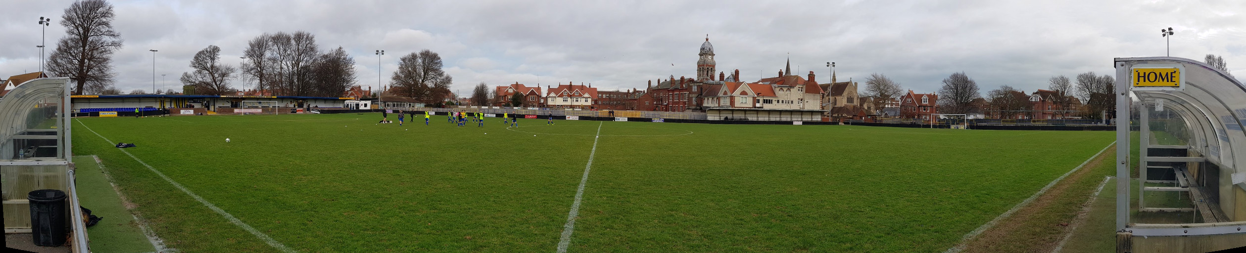 View inside The Saffrons football ground